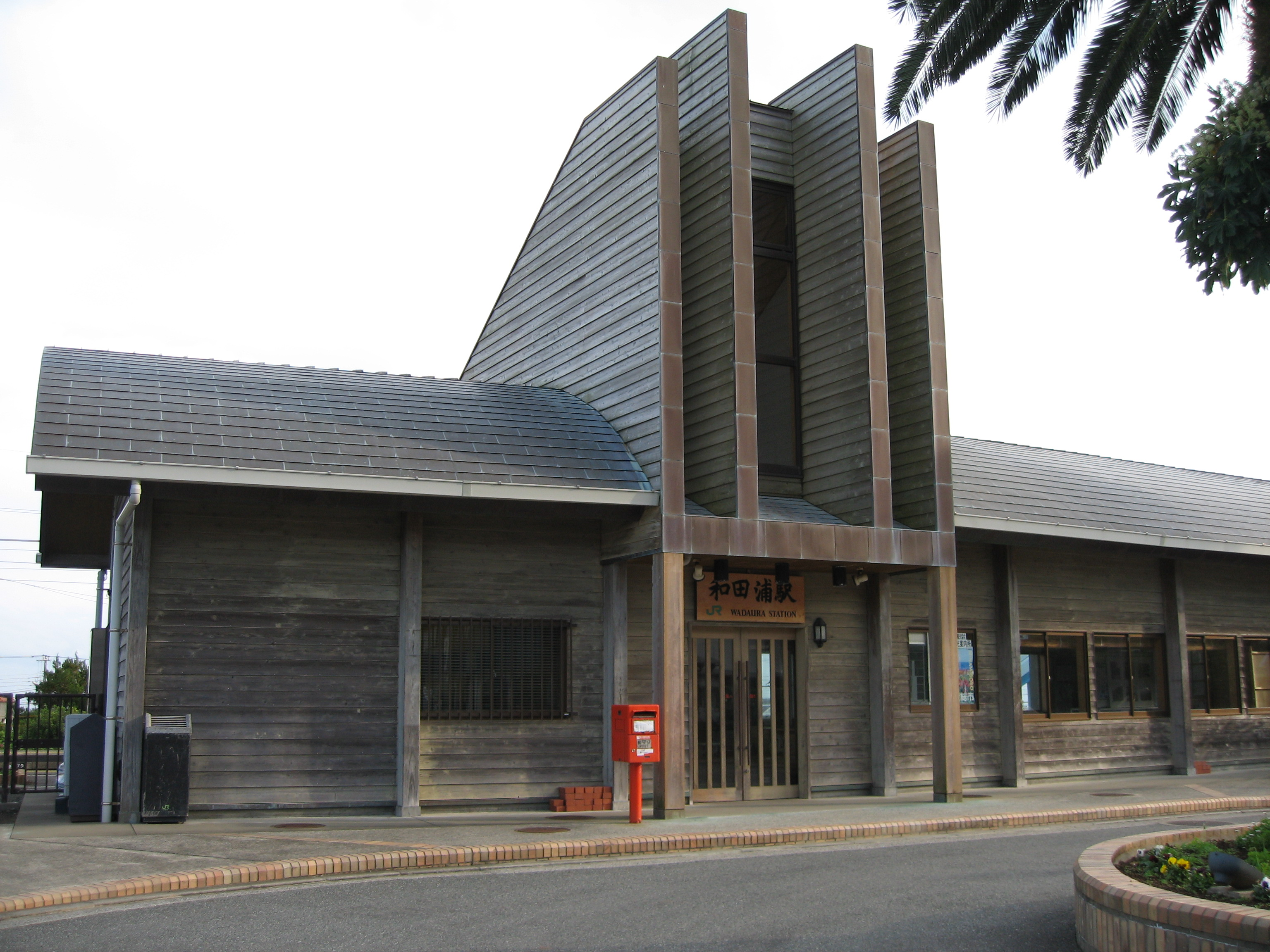 Wadaura Station on Uchibo Line, in Chiba Prefecture, Japan